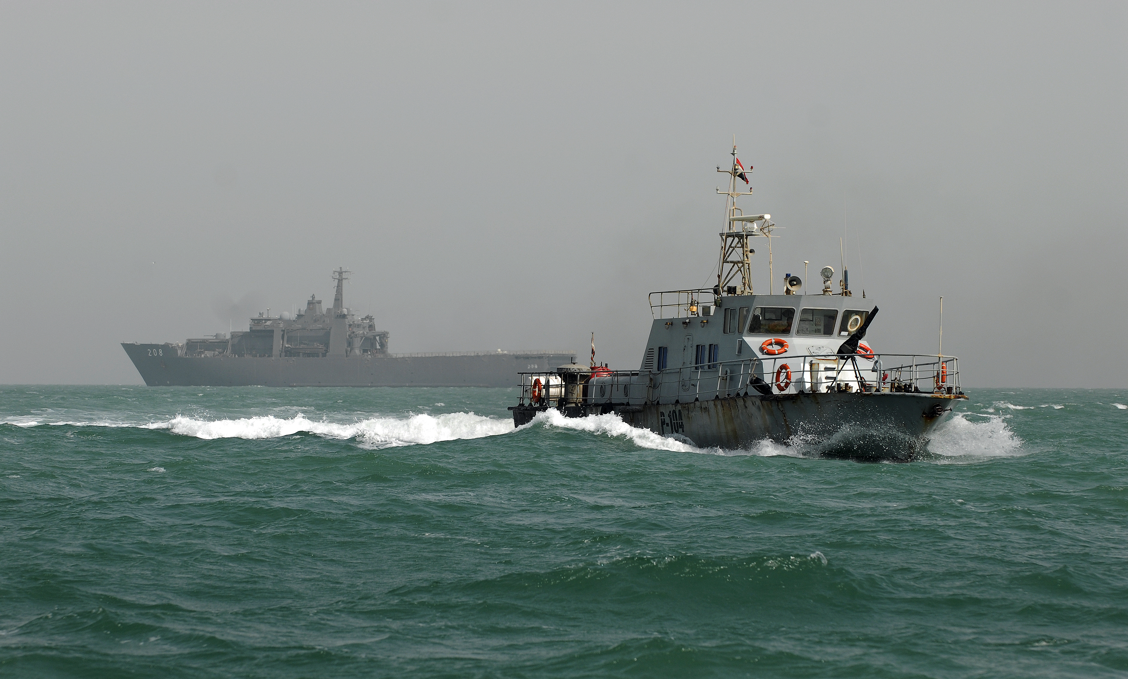 080918-N-6436W-067 PERSIAN GULF (Sep. 18, 2008) Iraqi coastal patrol boat P-104, assigned to Combined Task Force (CTF) 158, patrols the Persian Gulf waters near the Al Basra Oil Terminal (ABOT) as the Republic of Singapore transport dock ship RSS Resolution (LST 208) (background) is underway off the coast of Iraq. CTF-158 is responsible for ensuring the security of Iraq's ABOT and the Khawr Al Amaya Oil Terminal (KAAOT) in support of U.N. Security Council Resolution 1790. (U.S. Navy photo/Released)